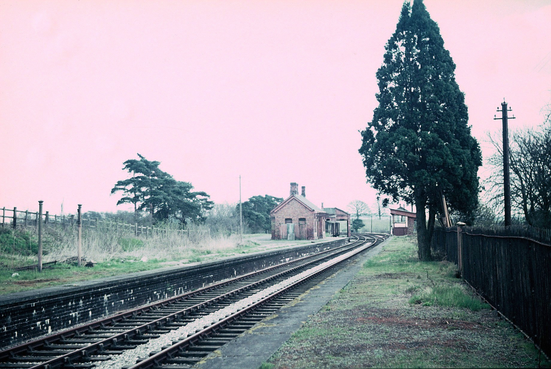 Looking west at Adderbury railway station.